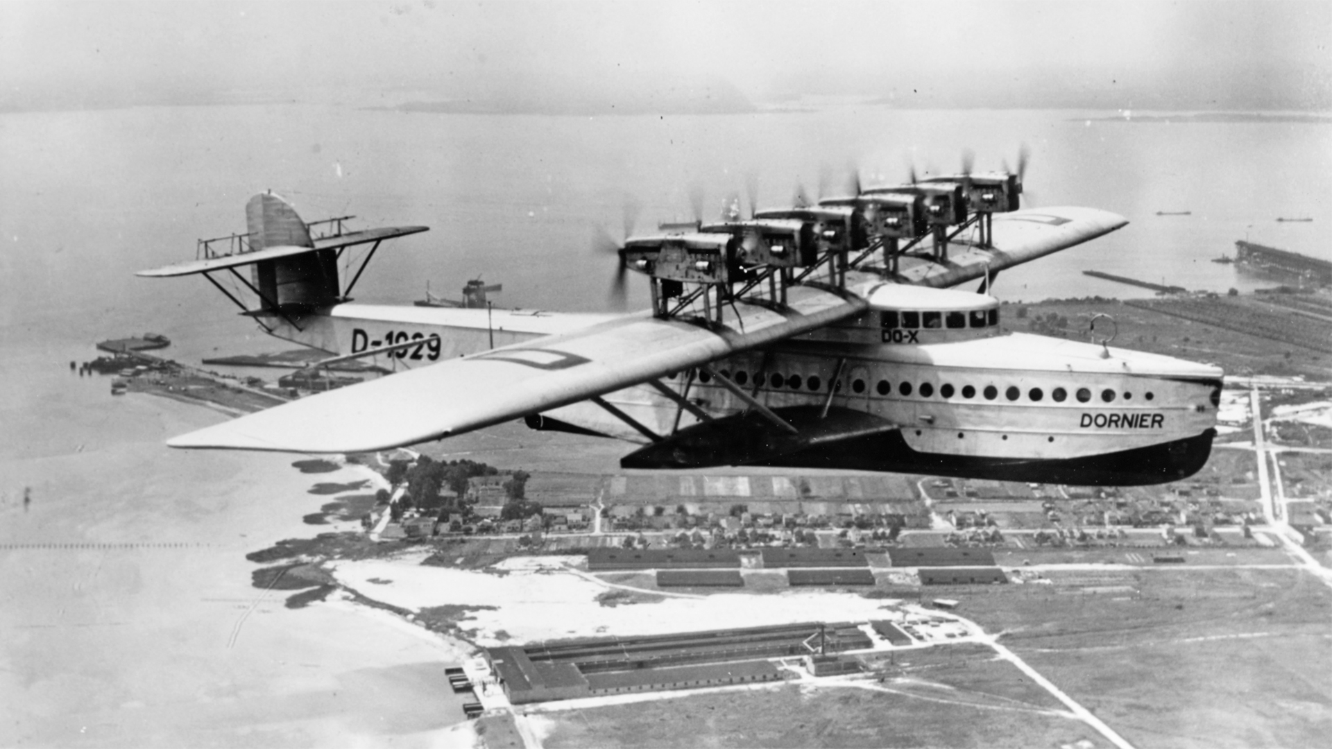 The Dornier Do X seaplane in flight over New York during its U.S. tour in 1931.